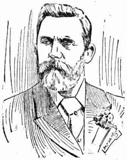 Joseph Earl Cherry Mitchell (22 July 1840 – 22 October 1897) was an English-born Australian politician and businessman. This engraving is from a newspaper aticle published at the time of his death in 1897.